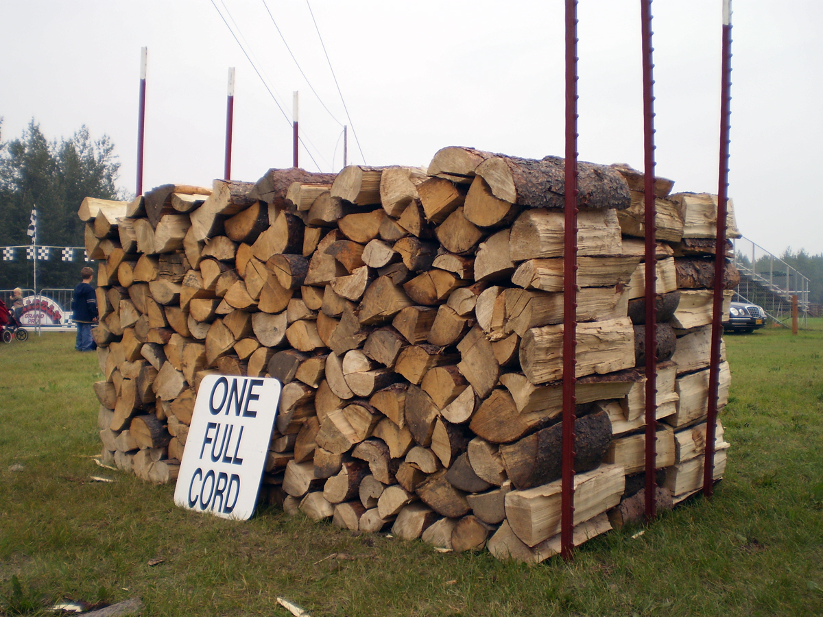 A full cord of wood.